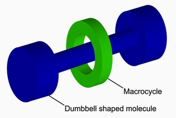 Original descripition: Graphical representation of a rotaxane.